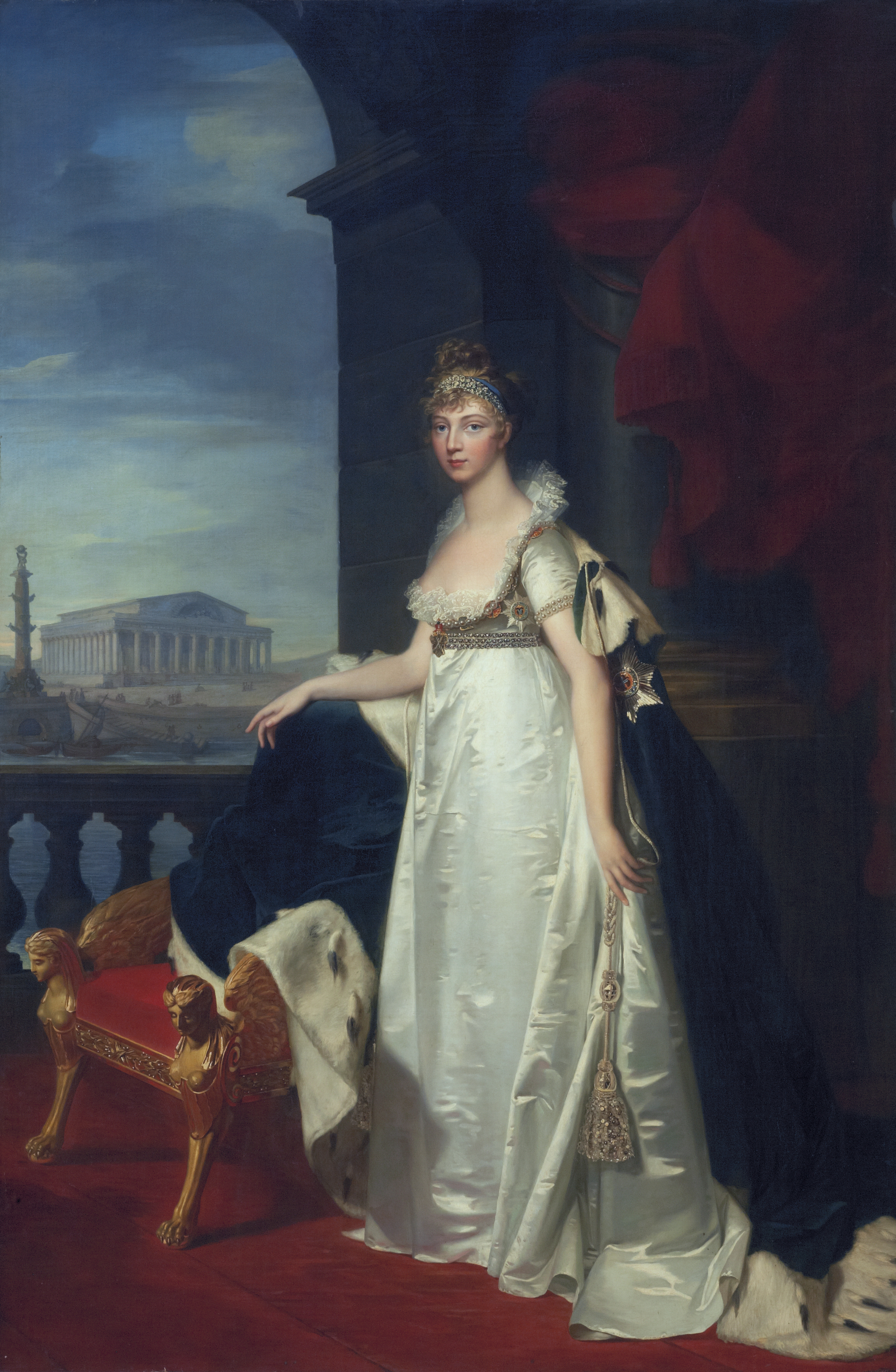 Elizaveta Alekseevna 1805